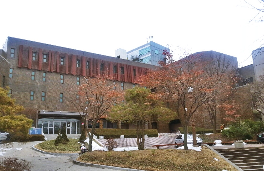 Frontside of the main building of the College of Music, Seoul National University, Seoul, Korea